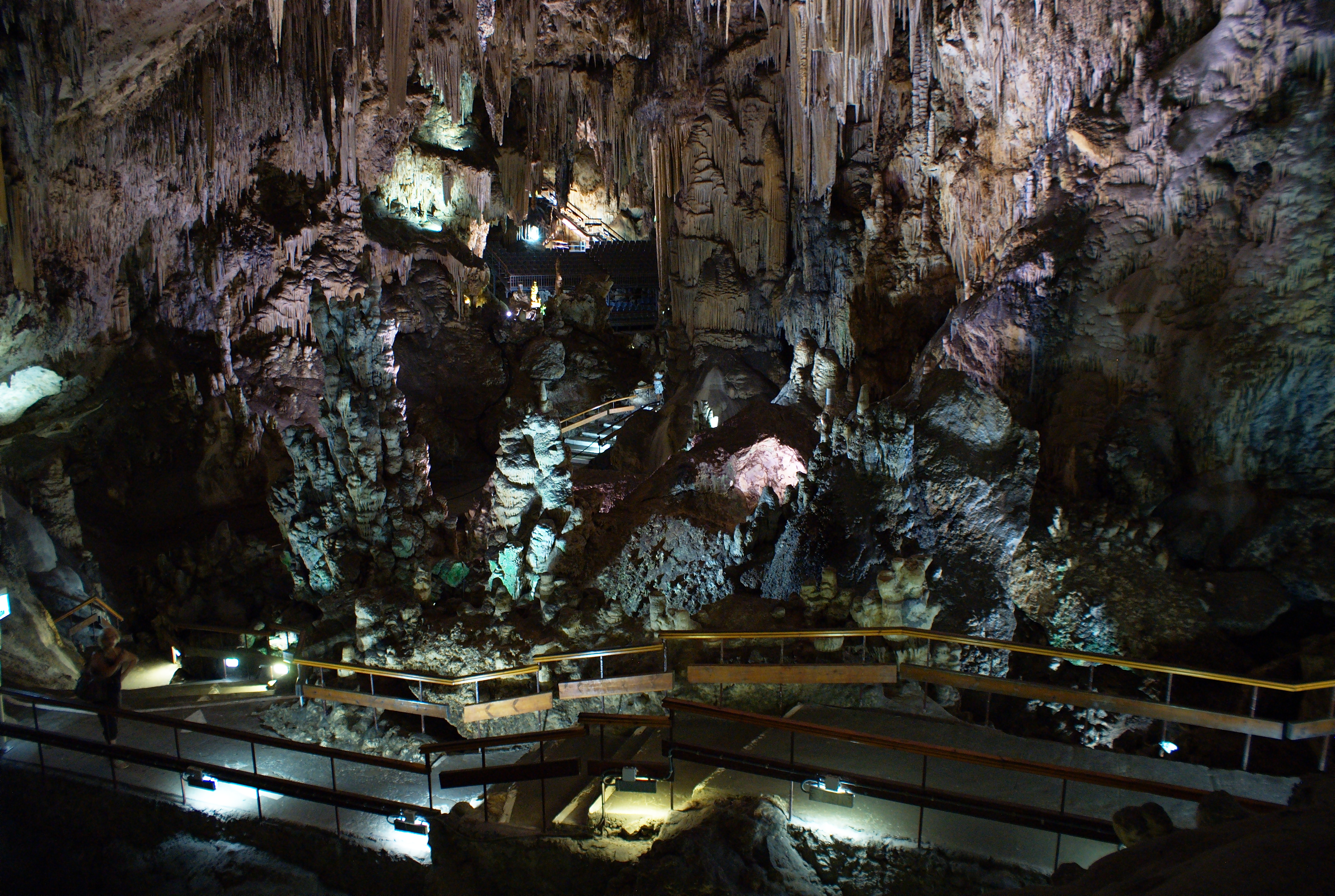 Inside of the Cueva de Nerja.